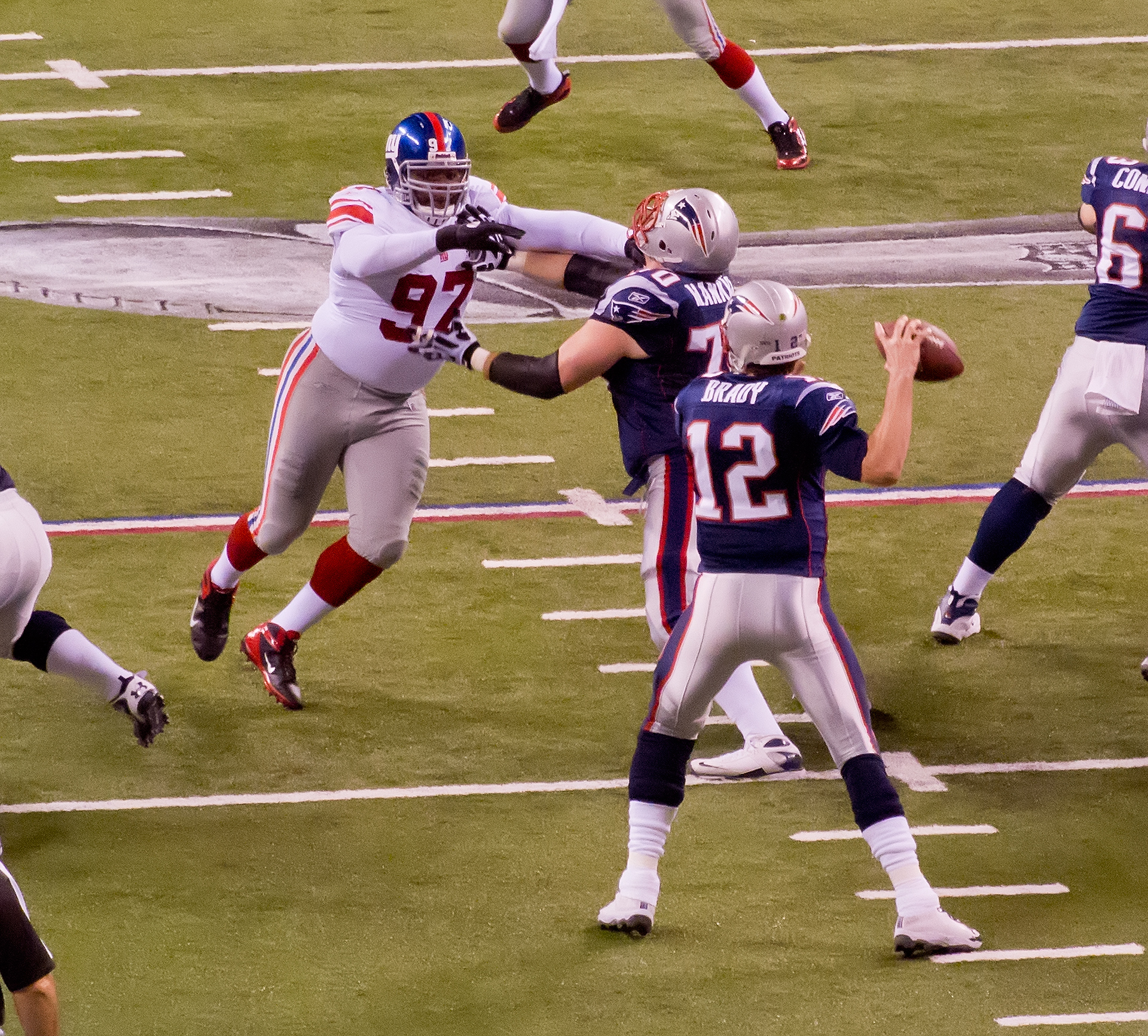 Tom Brady blocked.